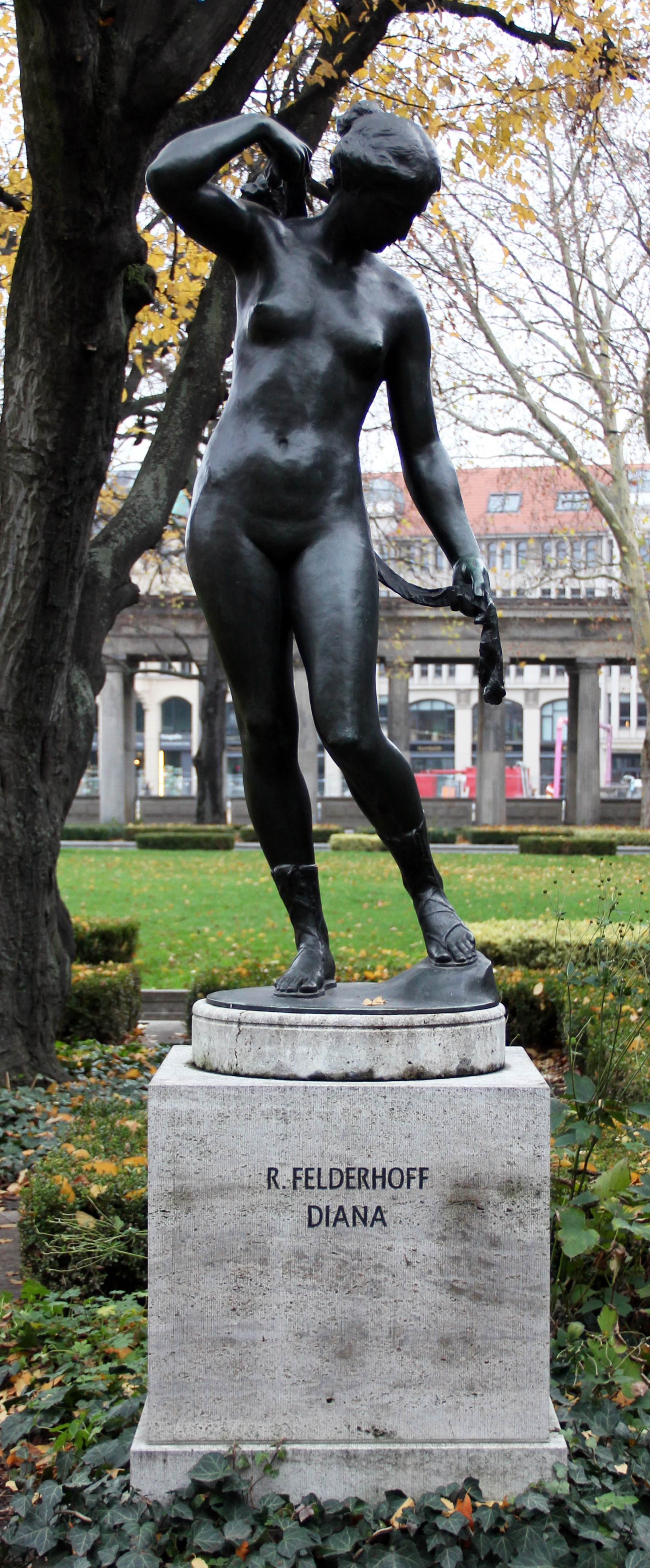 Sculpture, "Diana" by Reinhold Felderhoff, 1898, Bodestraße 1-3, Berlin-Mitte, Germany